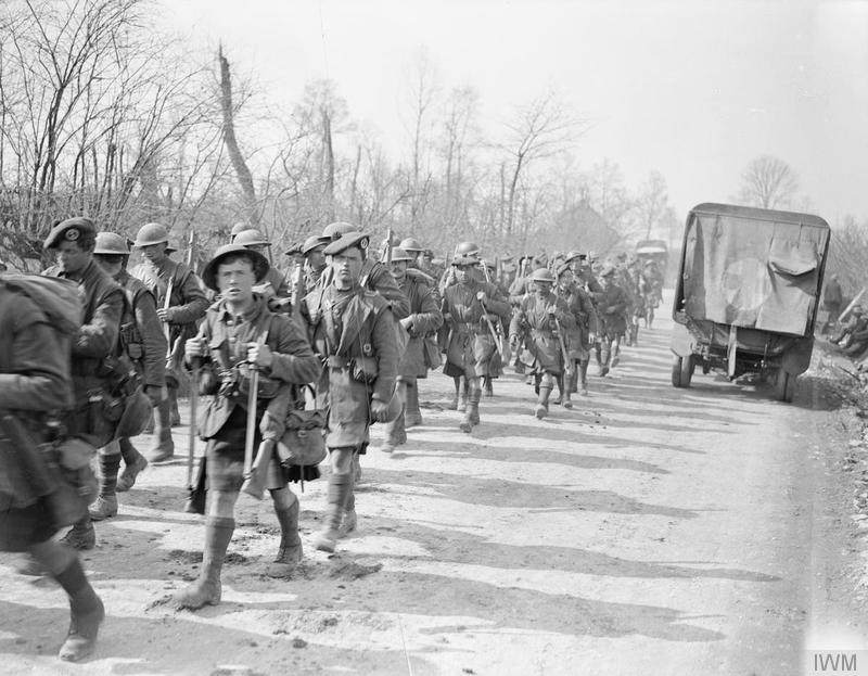 The German Spring Offensive, March-july 1918 Battle of St. Quentin. Troops of the South African Scottish Regiment or the Moislains-Bouchavesnes road, 23 March 1918.